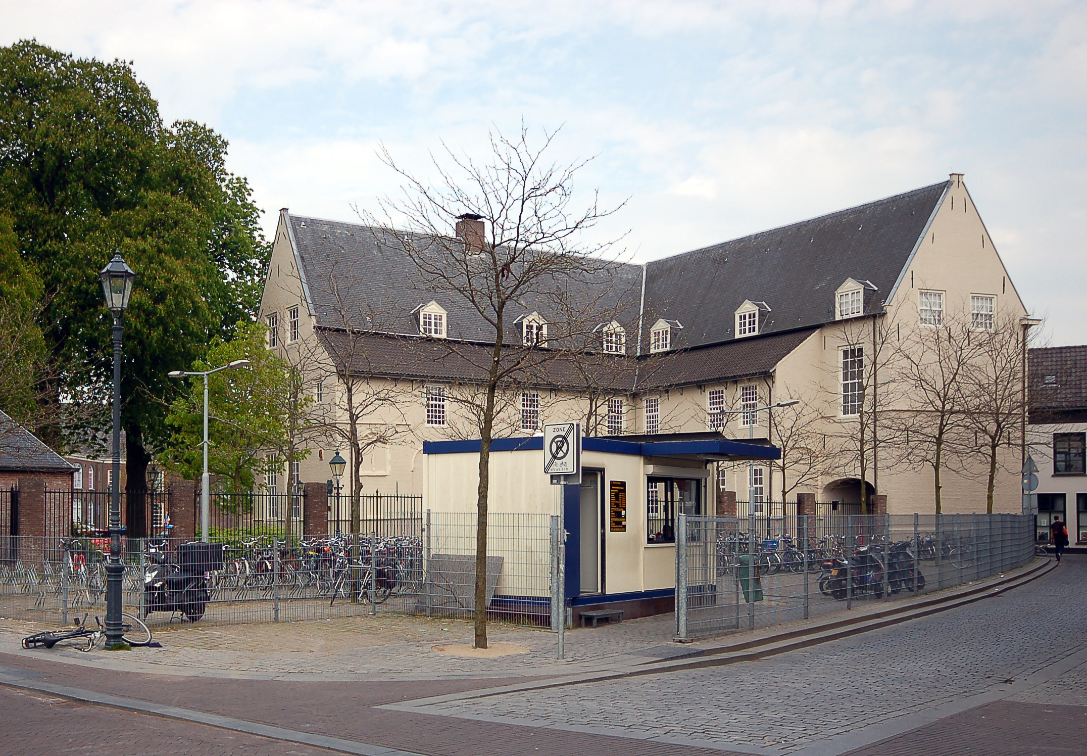 Parking for bicycles in Breda, Netherlands